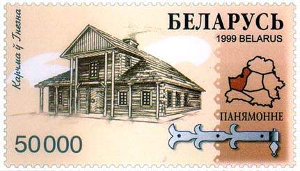 Stamp of Belarus